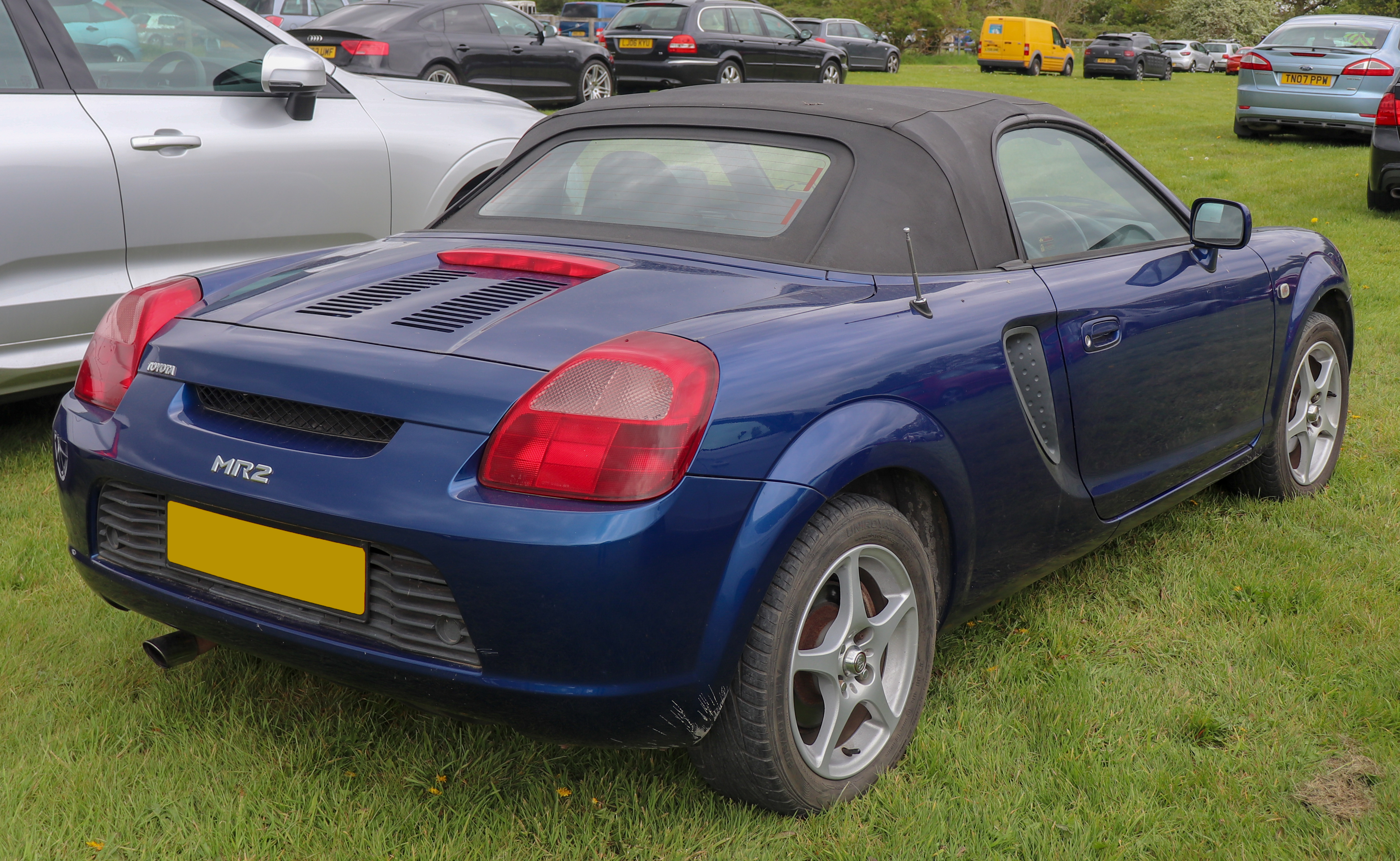 2002 Toyota MR2 1.8 Rear Taken in NAEC Stoneleigh, Warwickshire